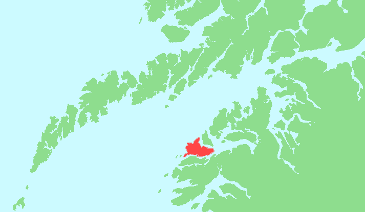 Locator map of Engeløya, Nordland, Norway